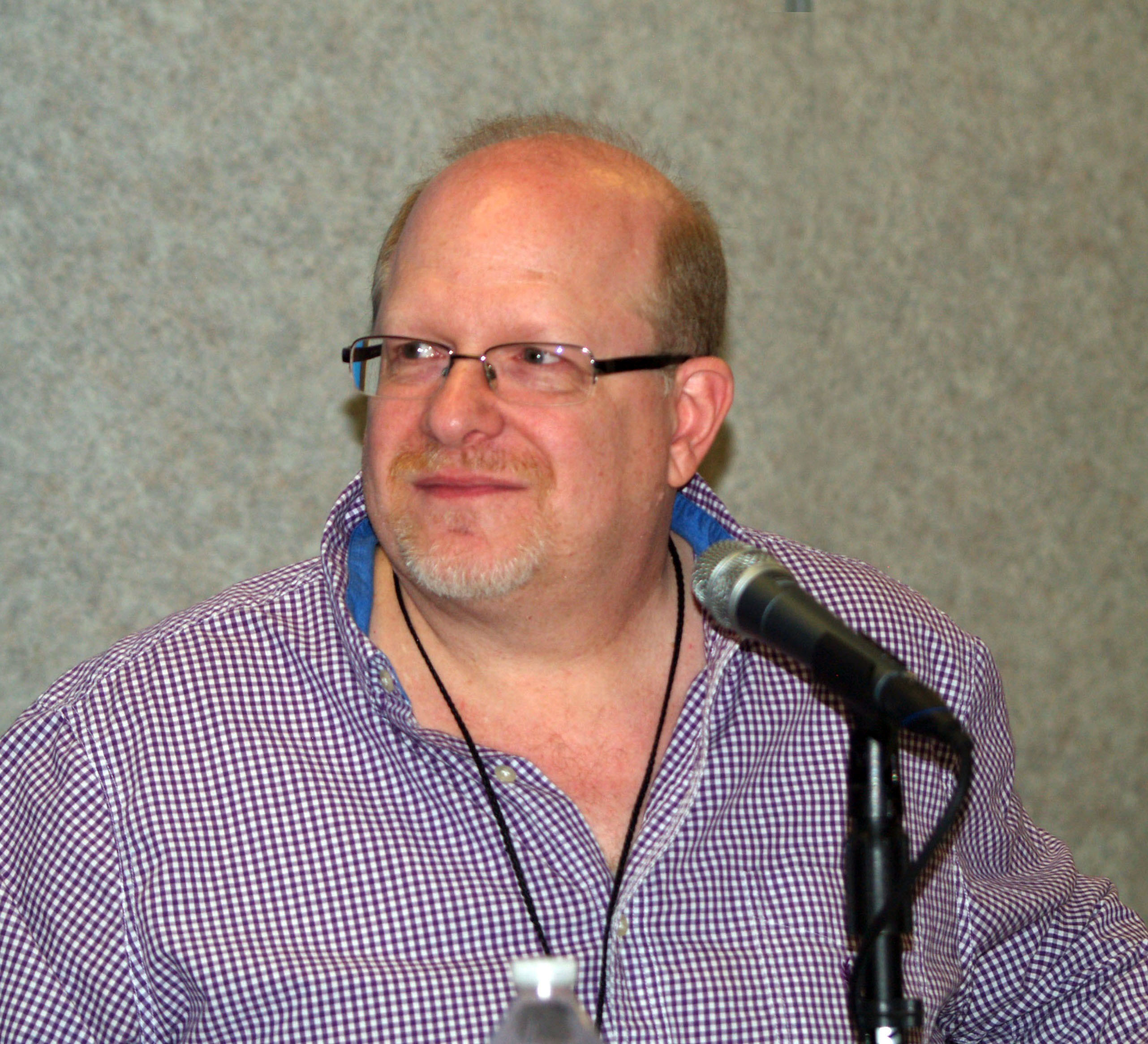 Comics writer Mark Waid speaking on the Writing Daredevil panel at the Meadowlands Exposition Center in Secaucus, New Jersey on April 17, 2016, Day 2 of the 2016 East Coast Comicon. This photo was created by Luigi Novi. It is not in the public domain, and use of this file outside of the licensing terms is a copyright violation.